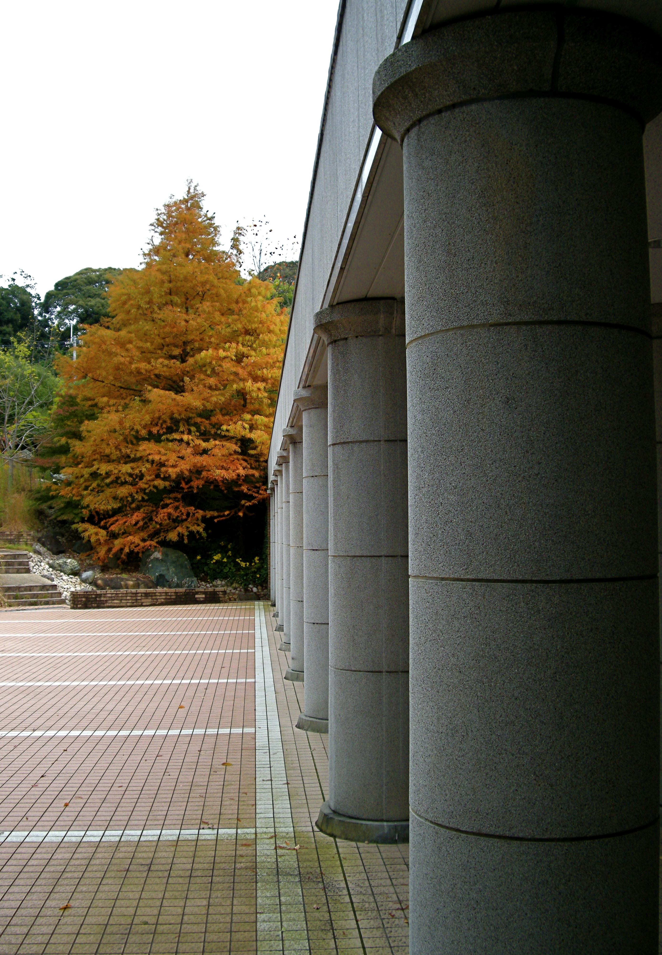 Saionji Memorial Hall Garden in the foliage season (Kinugasa Campus, Ritsumeikan University, Kyoto, Japan)